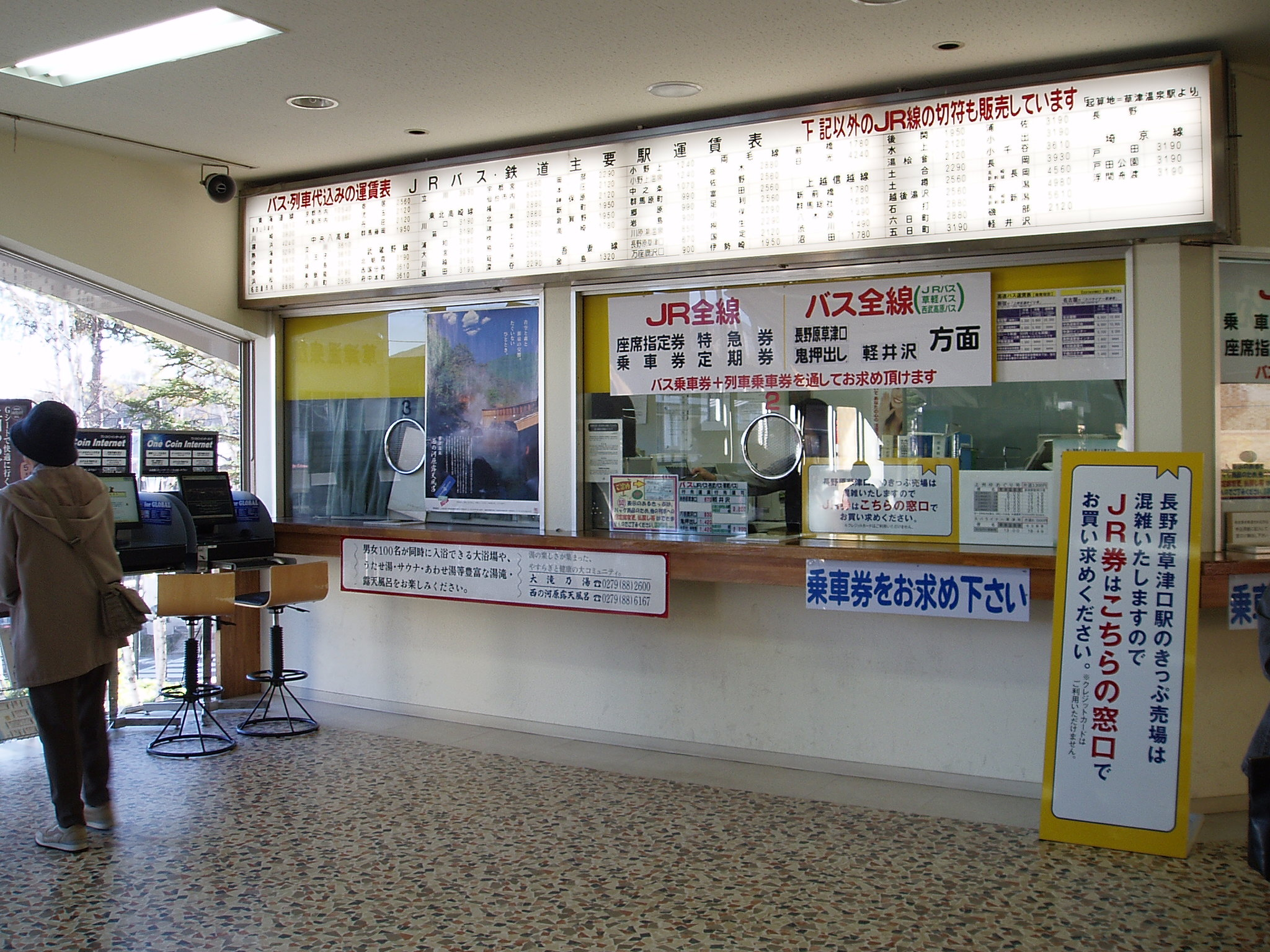 Ticket counter at JR Bus Kanto Kusatsu Onsen Bus Terminal